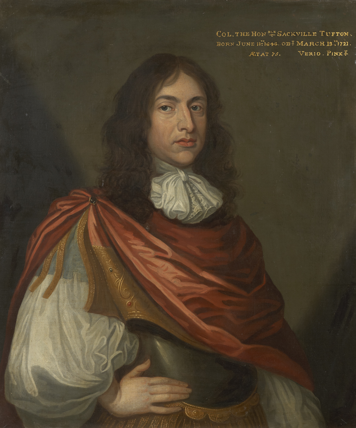 Portrait of Colonel Sackvile Tufton. Courtesy of the collection of the Lakeland Arts Trust.